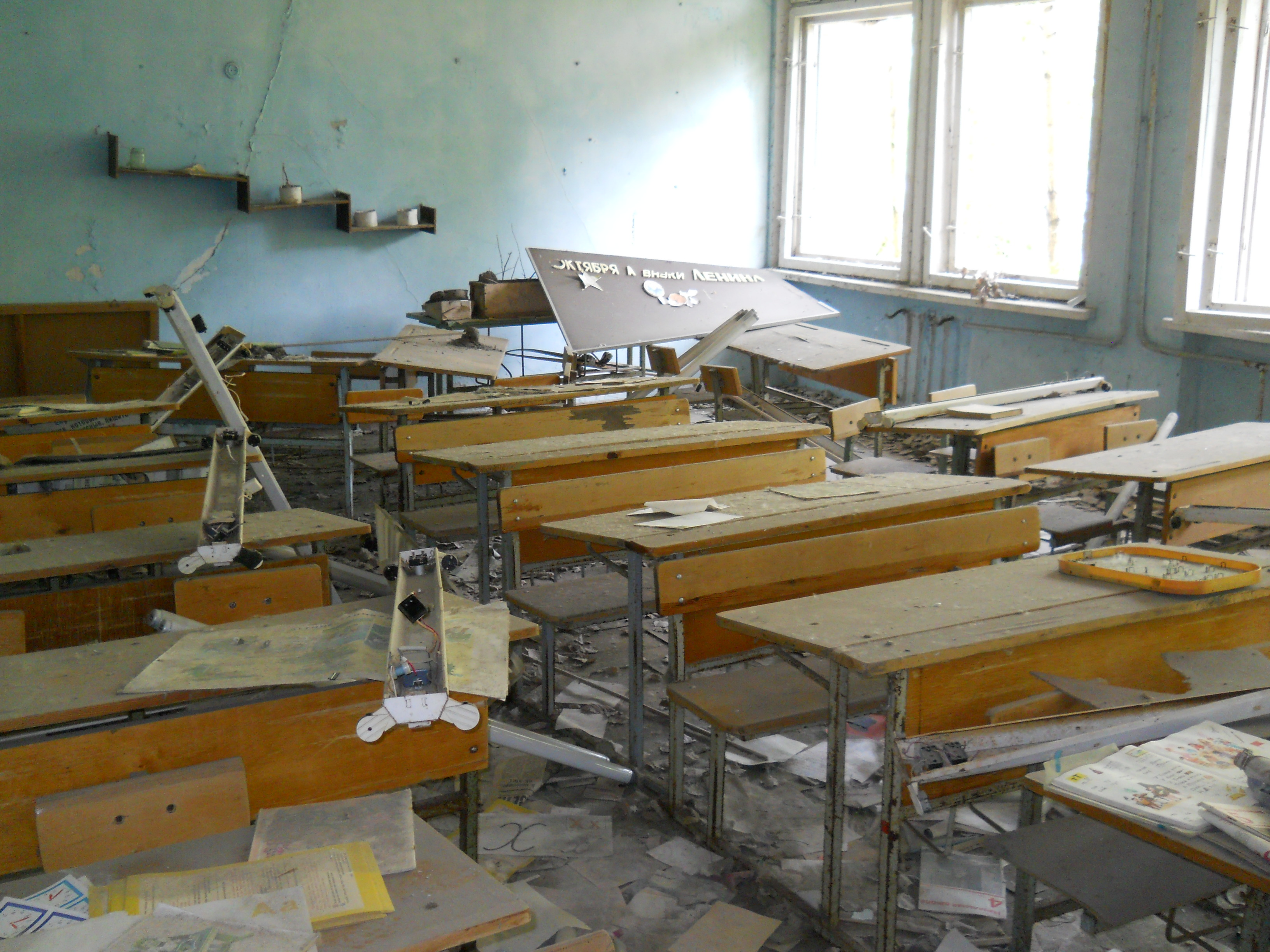 Classroom in School N3, Pripyat.